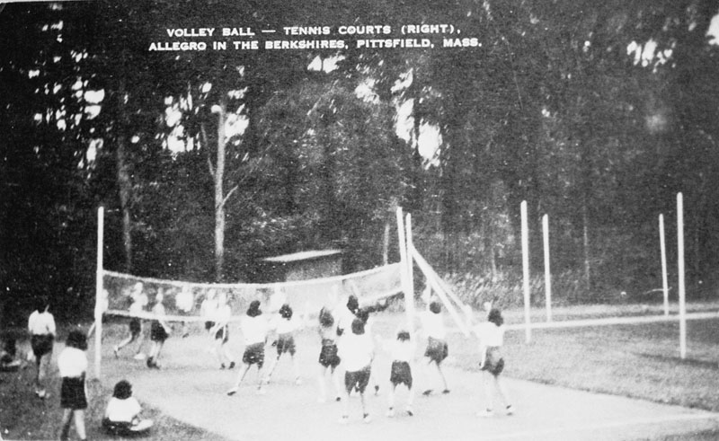 Description: Postcard. Girls playing volleyball. Caption: Volley Ball -- Tennis Courts (right). Allegro in the Berkshires, Pittsfield, Massachusetts. Date: undated Medium: Black and white photograph Repository: Yeshiva University Museum Call Number: 1999.056 Persistent URL: Rights Information: No known copyright restrictions; may be subject to third party rights. For more copyright information, click here. See more information about this image and others at CJH Digital Collections. This material may be used for personal, research and educational purposes only. Any other use without prior authorization is prohibited. Please contact the Yeshiva University Museum at for further information. Digital images created by the Gruss Lipper Digital Laboratory at the Center for Jewish History.